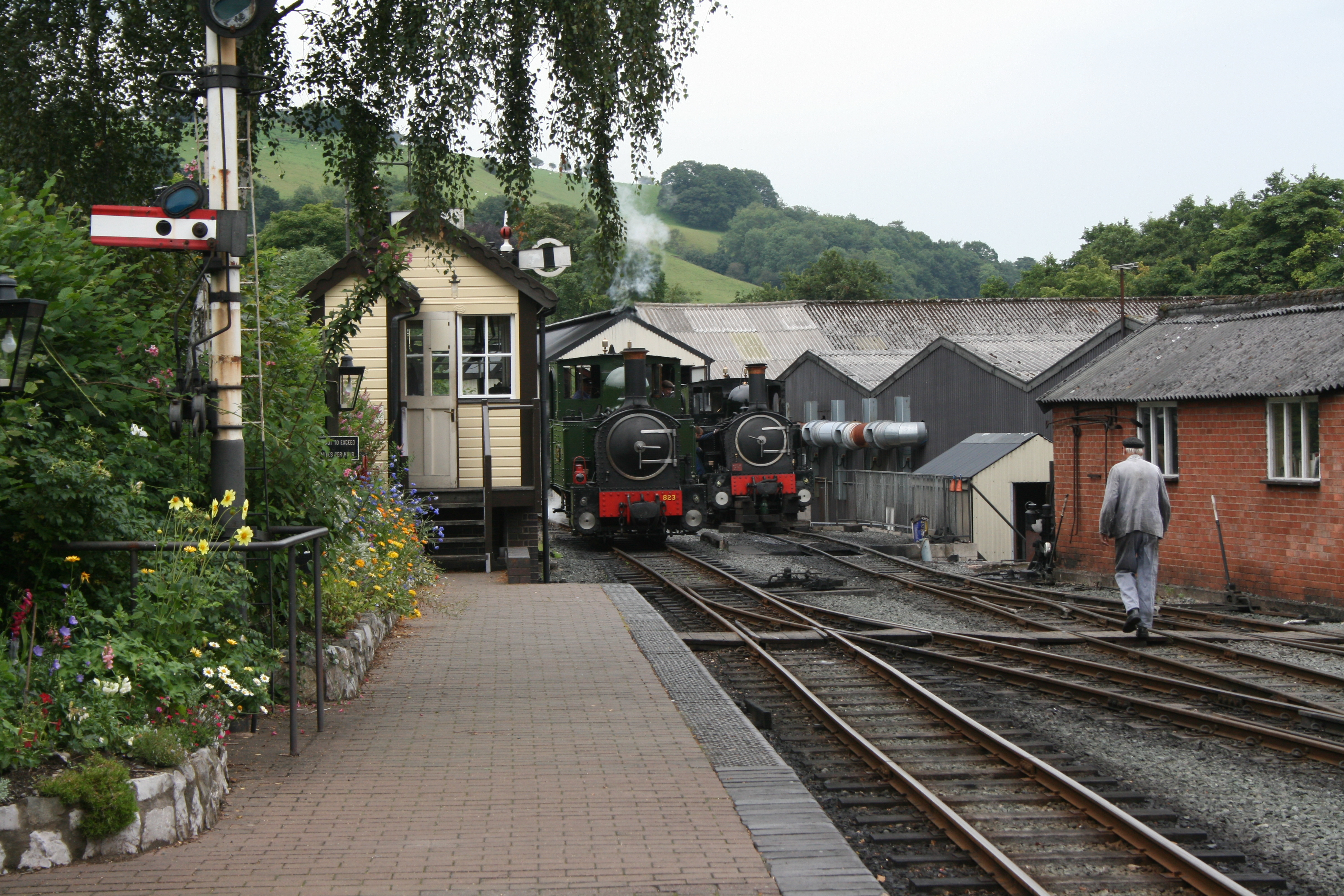 Both of the W&L's original Beyer-Peacock locos side by side at Llanfair Caereinion terminus.